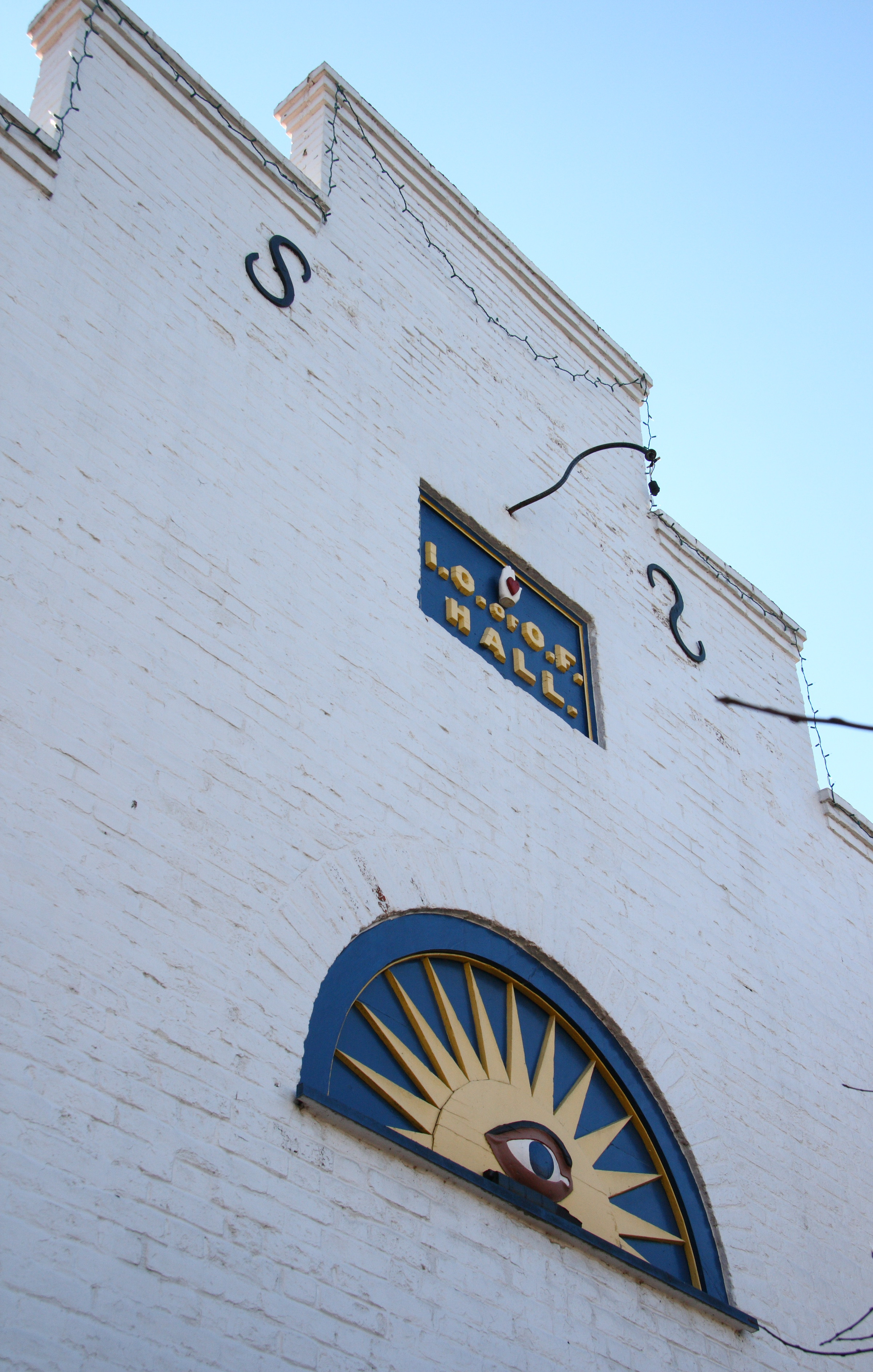 Old Market House, Shepherdstown, West Viginia, USA